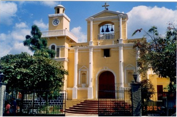 The Catholic Church of San Felipe Retalhuleu